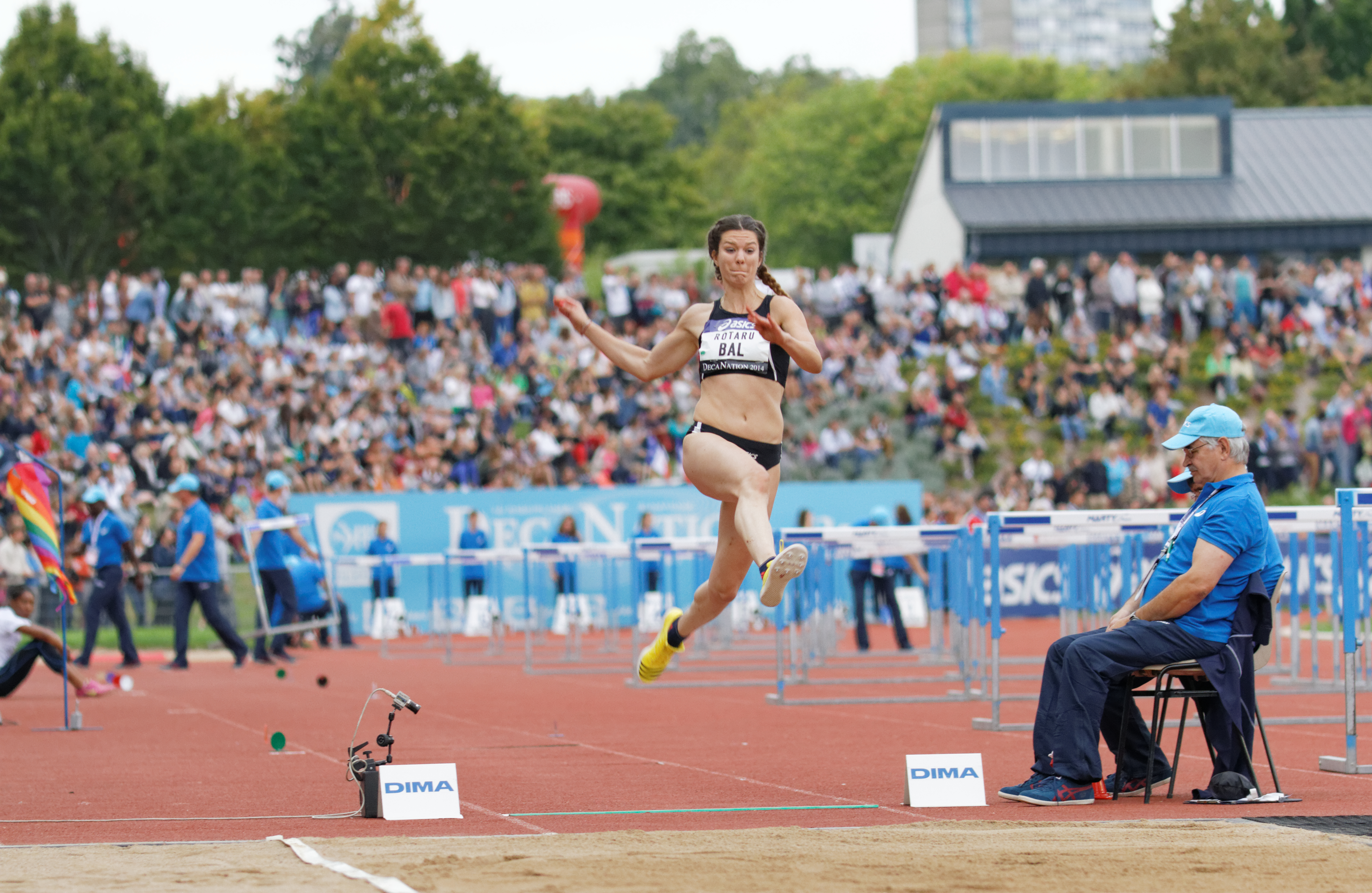 DécaNation 2014